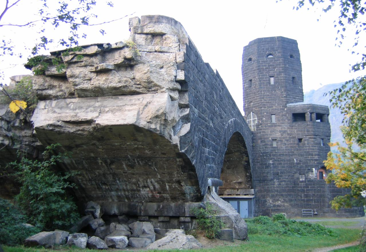 Ludendorff Bridge.